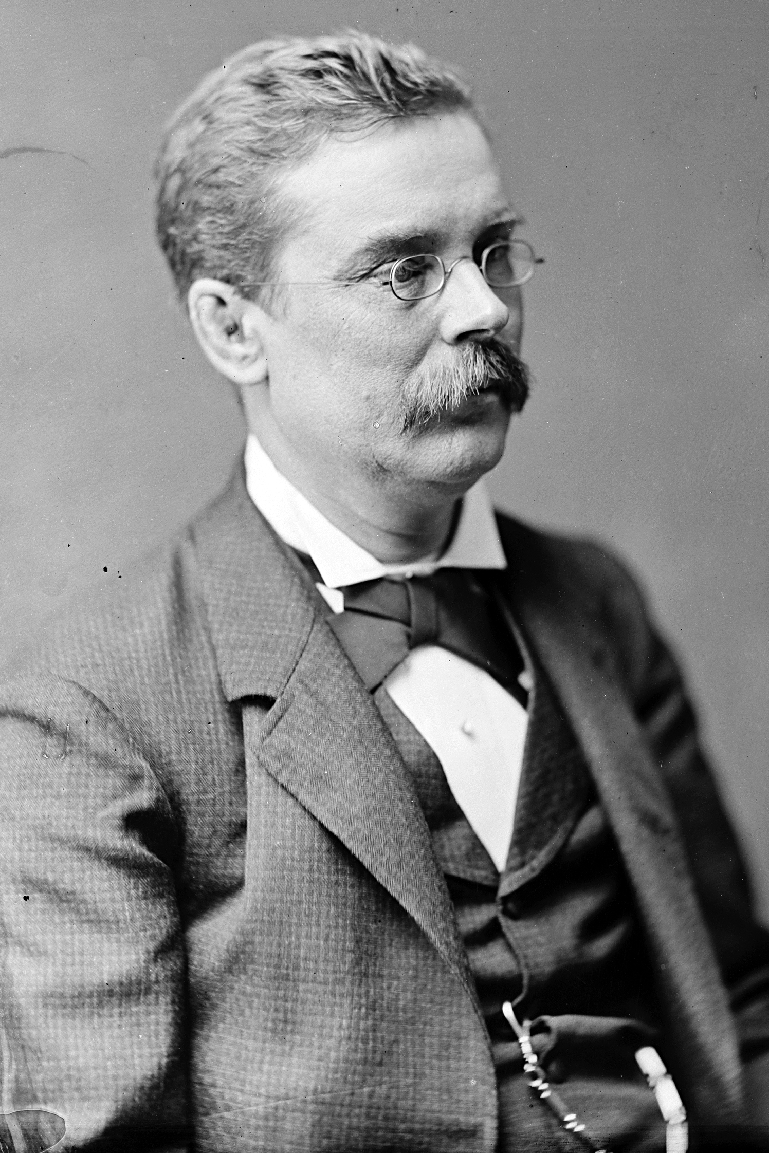 Alan Wood, US Representative from Pennsylvania